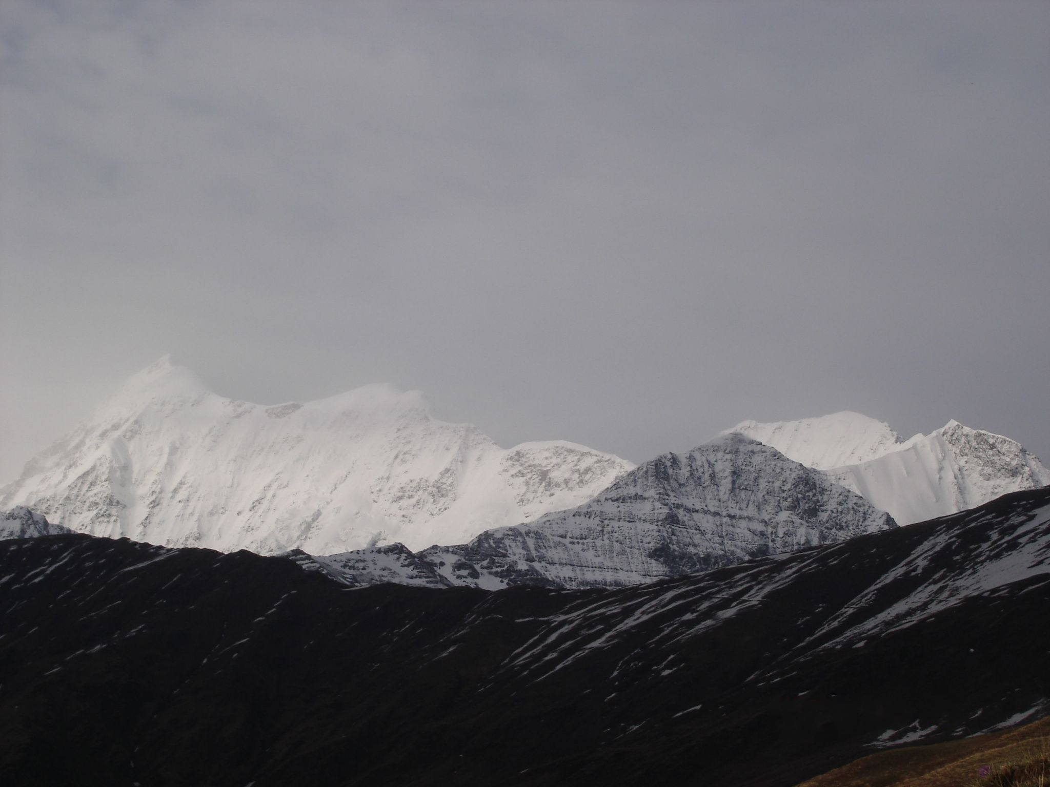 Trishul peak as seen from Bedni Bugyal, Chamoli, Uttaranchal in May 2007 at 6 30 AM.